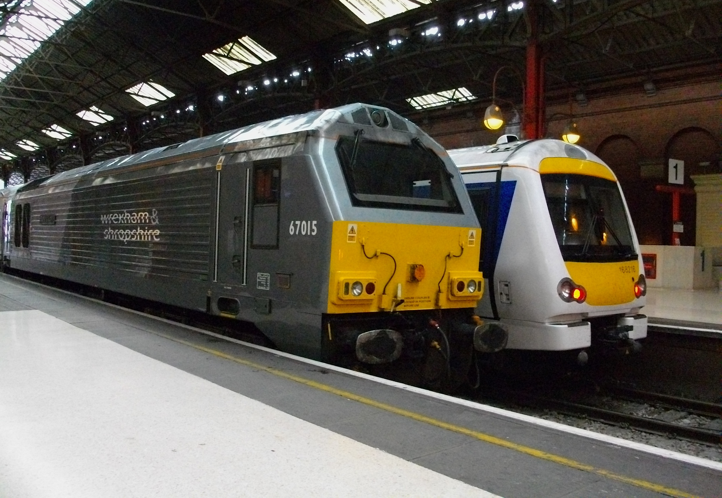 Class 67 No. 67015 'David J. Lloyd' at London Marylebone, on Wednesday 30TH September 2009.